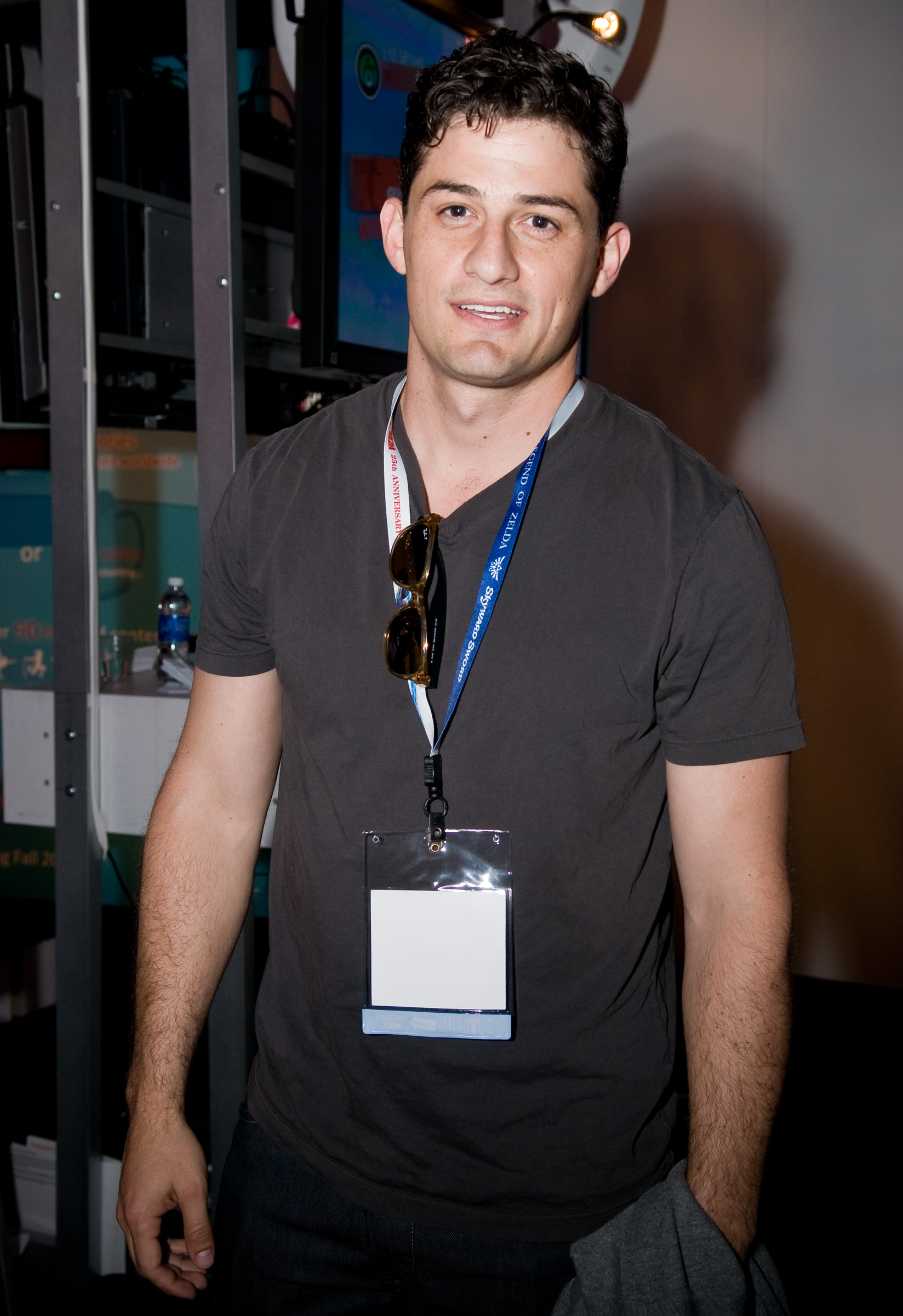 Enver Gjokaj at E3